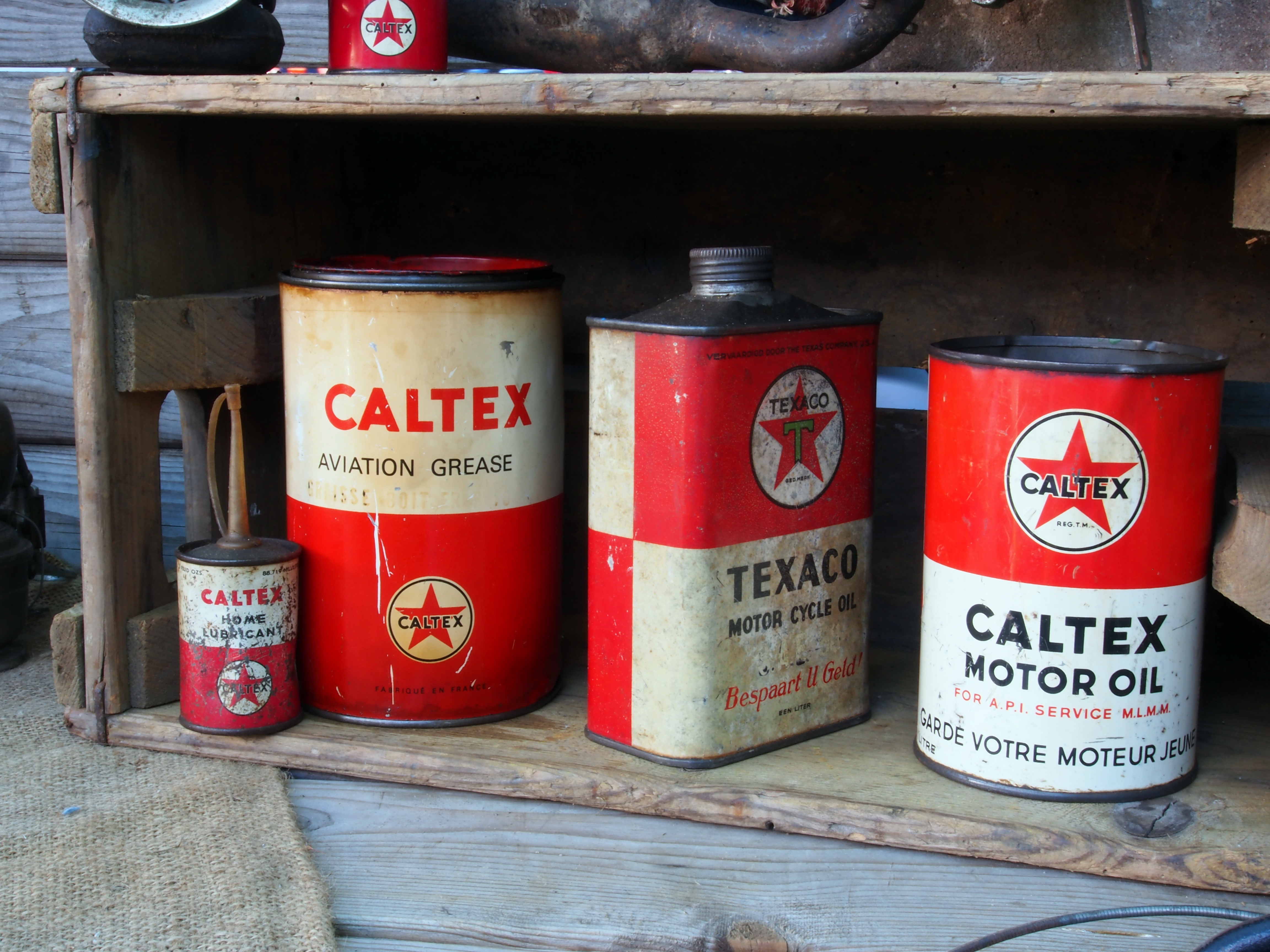 Caltex & Texaco canisters.